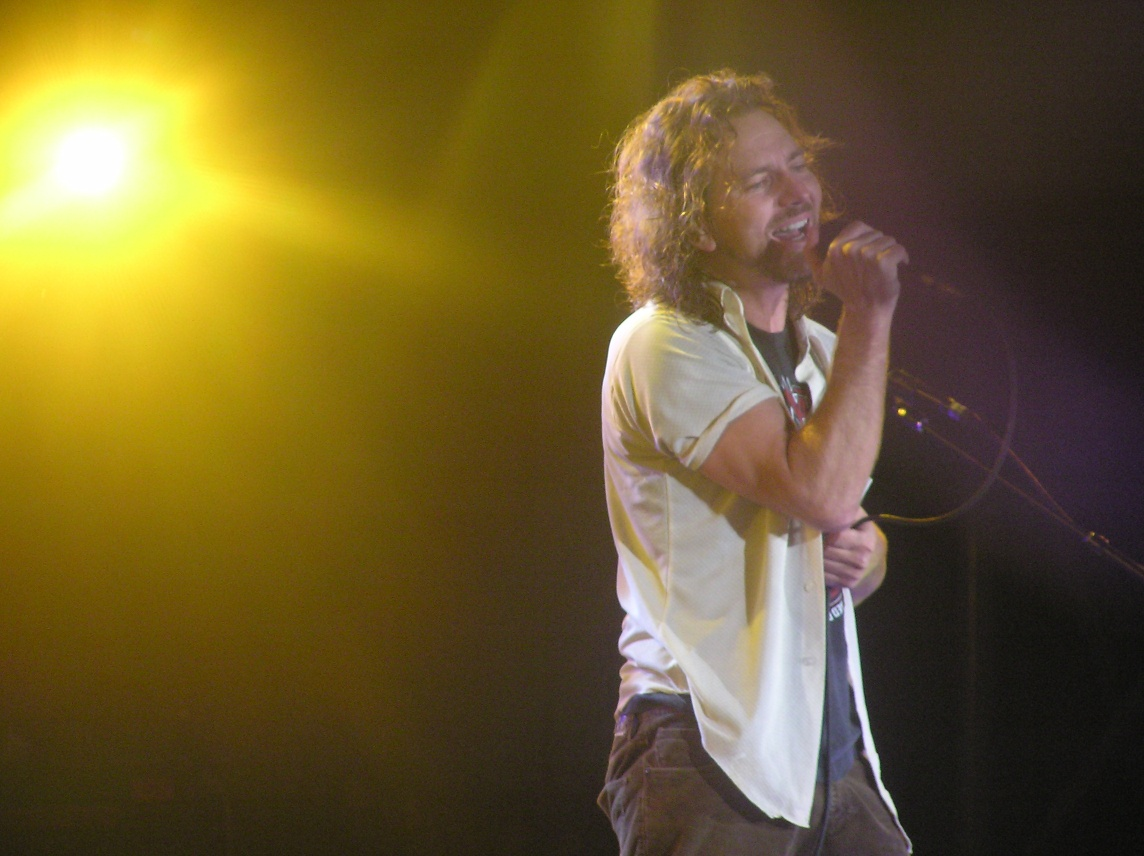 Eddie Vedder September 23, 2006